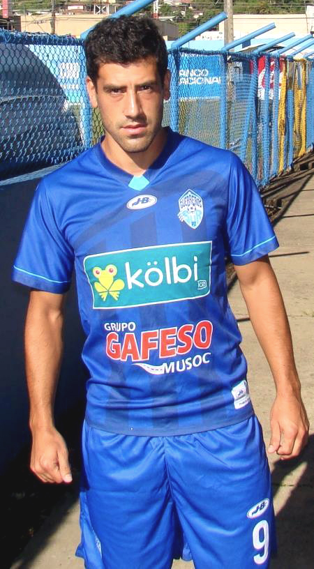 Fabrizio Ronchetti, uruguayan footballer.